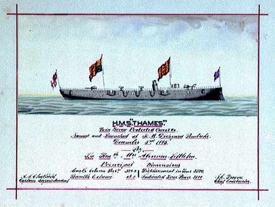 HMS Thames Twin Screw Protected Corvette. Named and launched at HM Dock Yard Pembroke December 2nd 1885 by The Honble Mrs Algernon Littleton